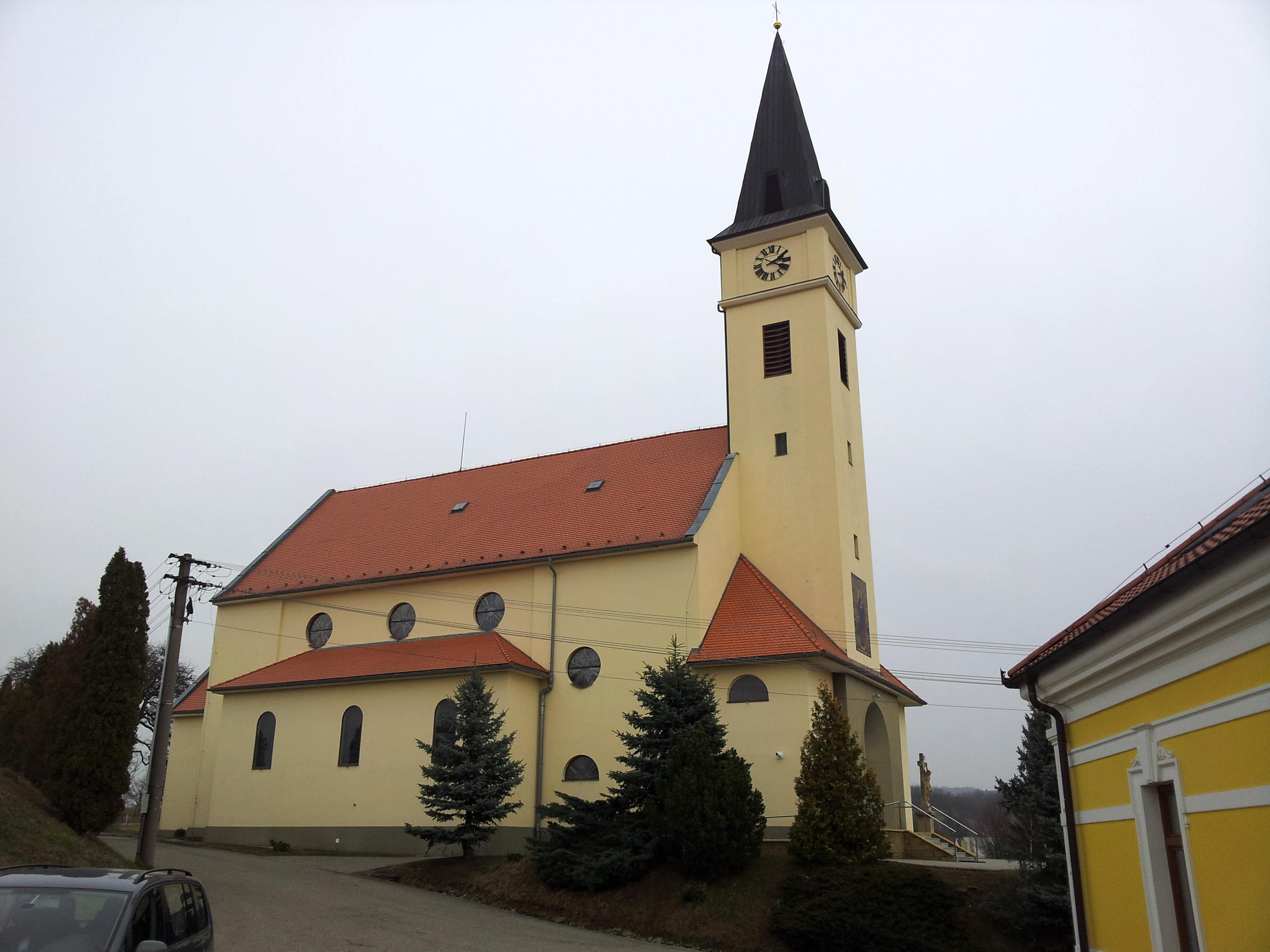 Prakšice, Uherské Hradiště District, Czechia. Church of Christ the King.